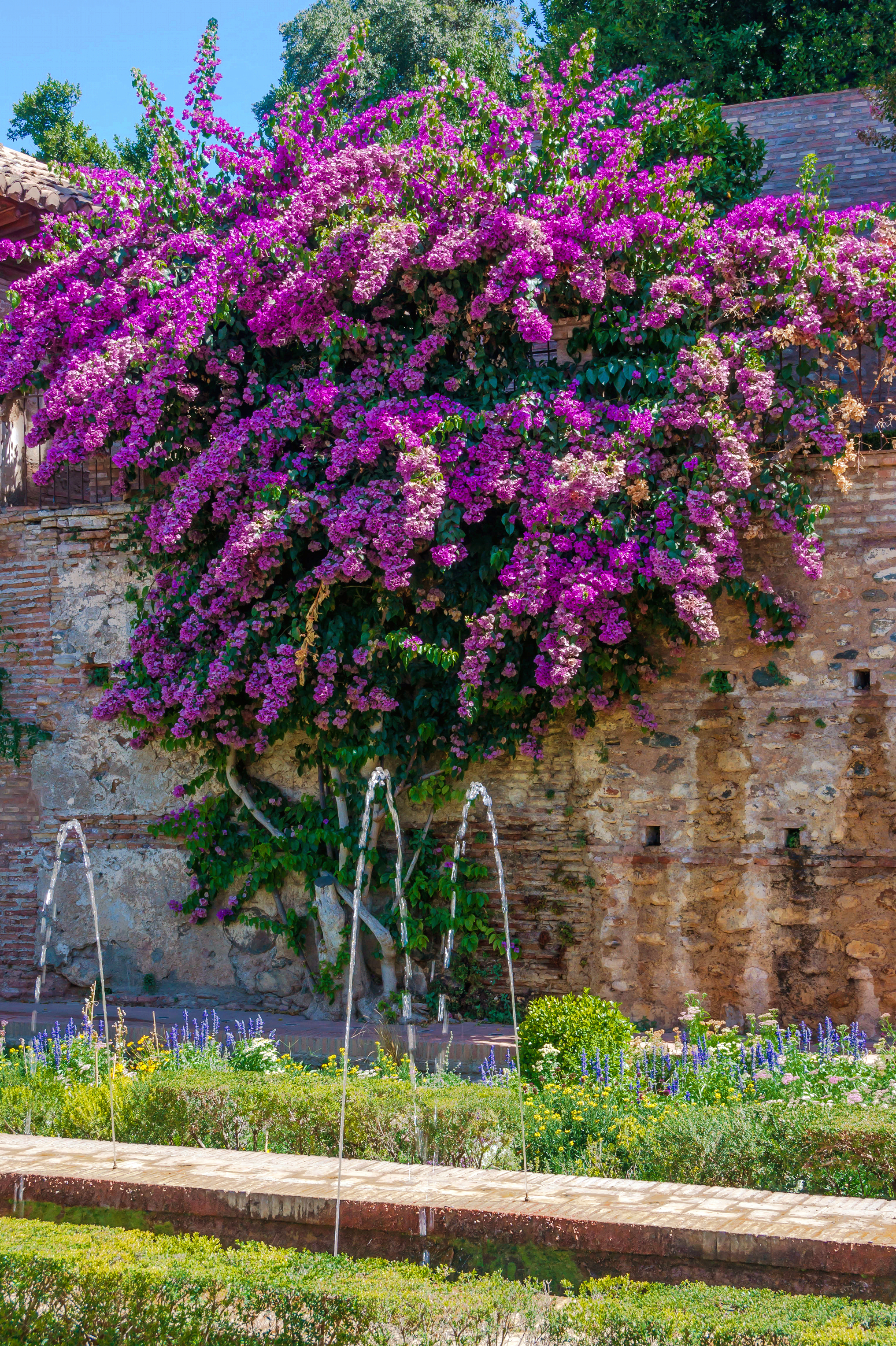 Bougainvillée (Bougainvillea spectabilis), "Patio de la Acequia", Generalife, Granada, Spain.